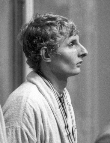 Australian swimmer Max Metzker